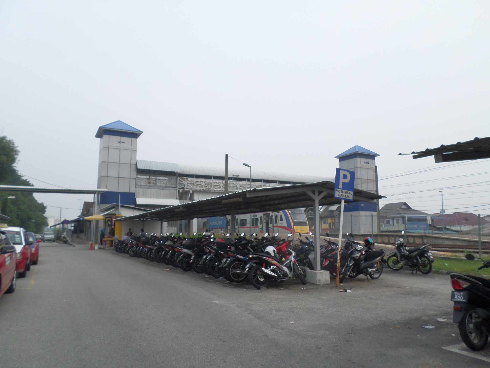 Padang Jawa Railway Station, Padang Jawa, Petaling, Selangor, Malaysia